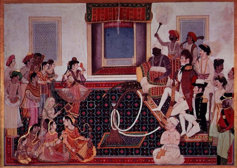 Mahadaji Sindhia entertaining a British naval officer and military officer with a nautch; a watercolour, c.1820